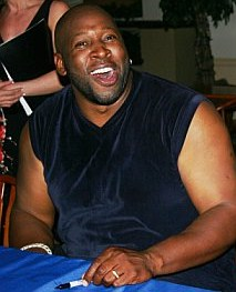 Wayman Tisdale at CD release party at the AllStar Rendezvous Concert in 2006